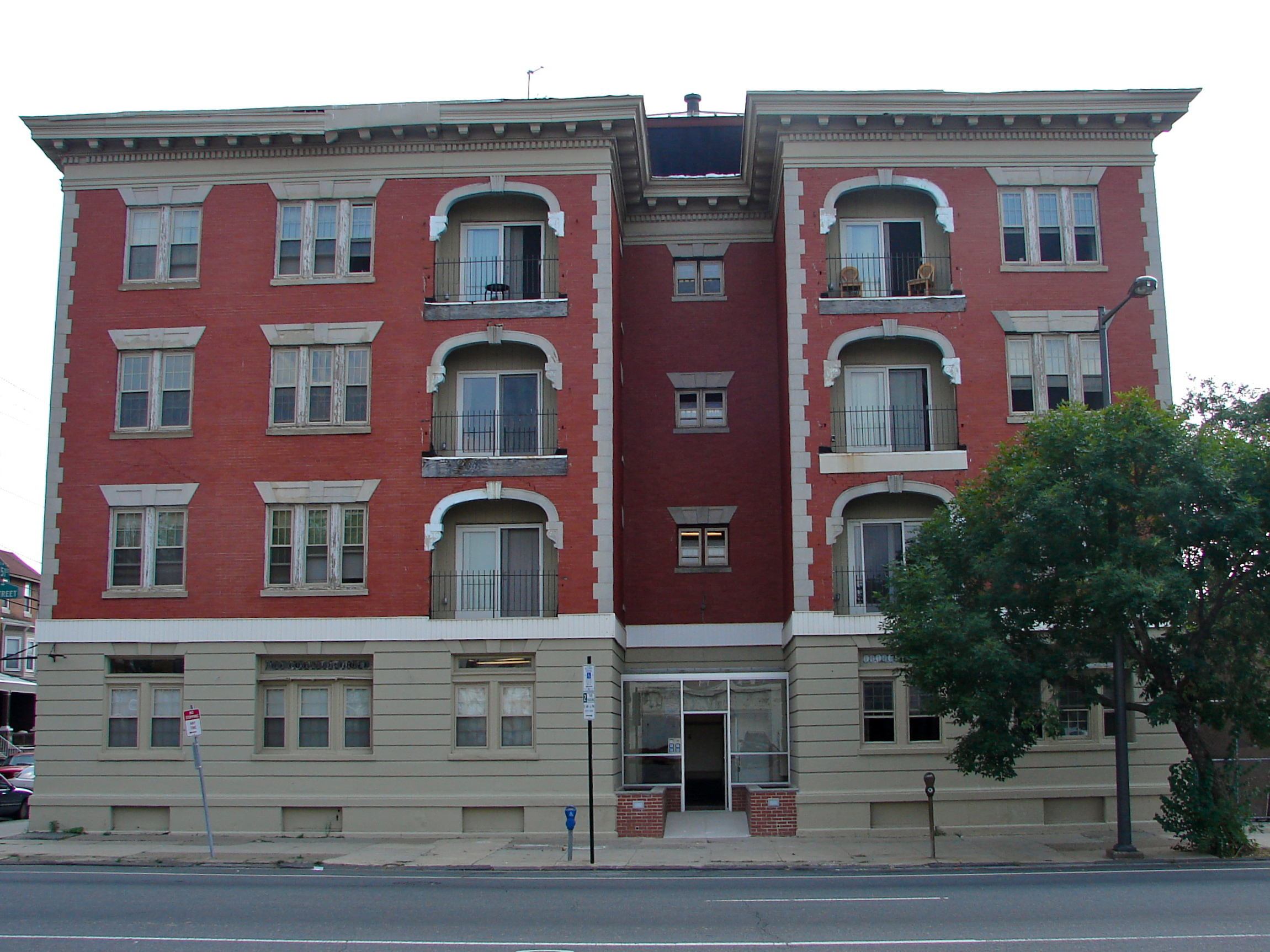 La Blanche Apartments in Philadelphia on the NRHP since March 7, 1985. At 5100 Walnut Street in the Walnut Hill neighborhood of West Philly. This is the northern exposure, from Walnut Street